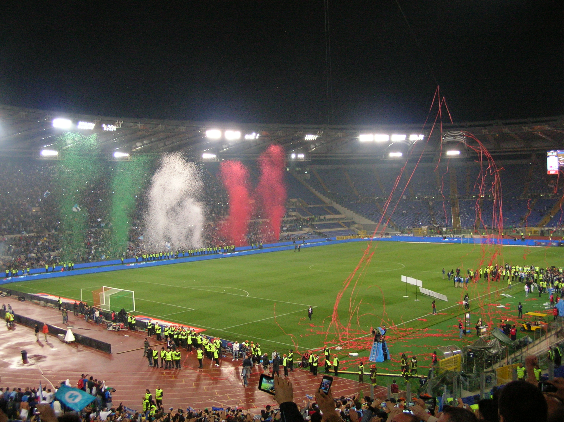 Closing Ceremony of the Coppa Italia 2011-2012 Naples - Juventus 2-0